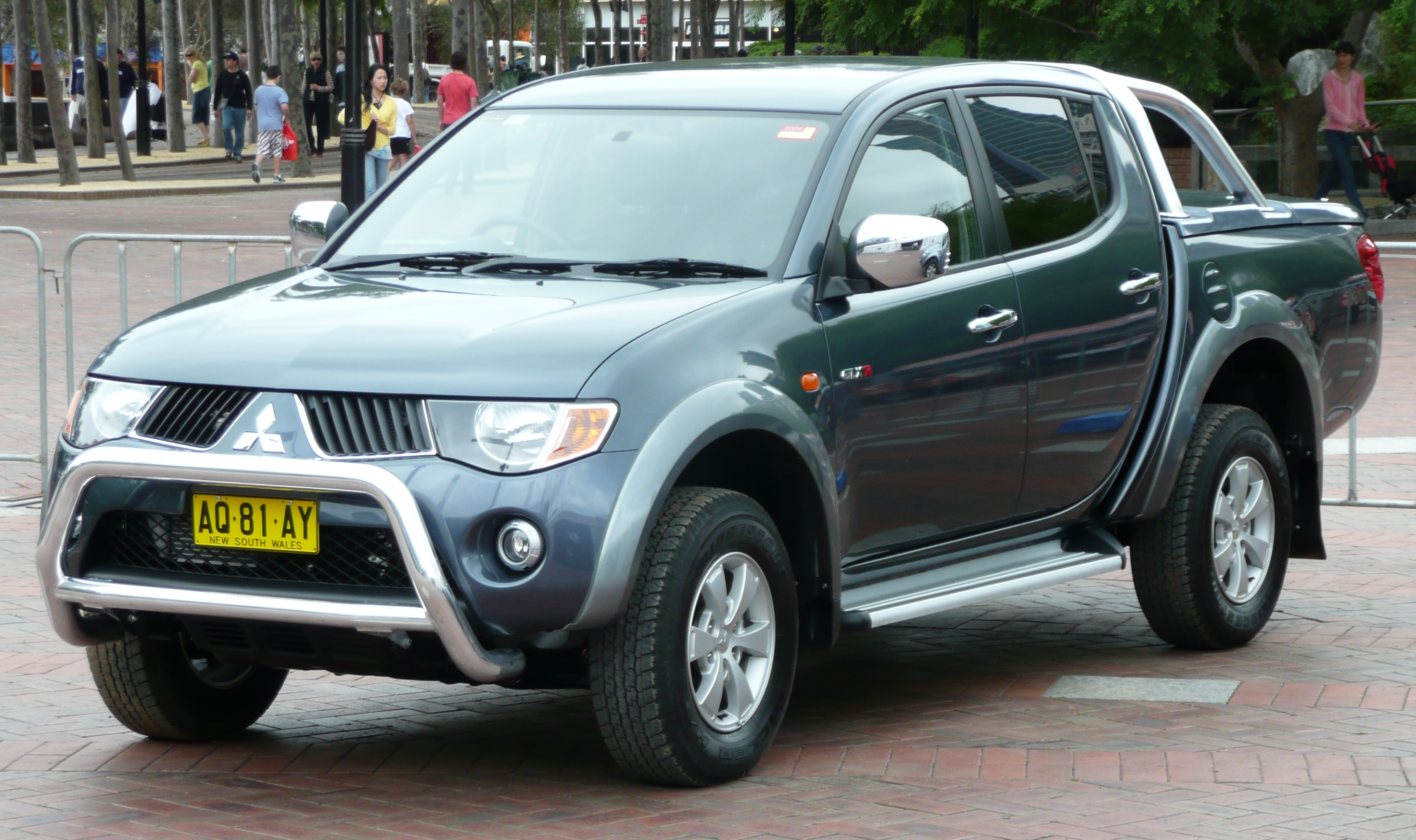 2007 Mitsubishi Triton (MN) GLX-R 4-door utility. Photographed in Sydney, New South Wales, Australia.